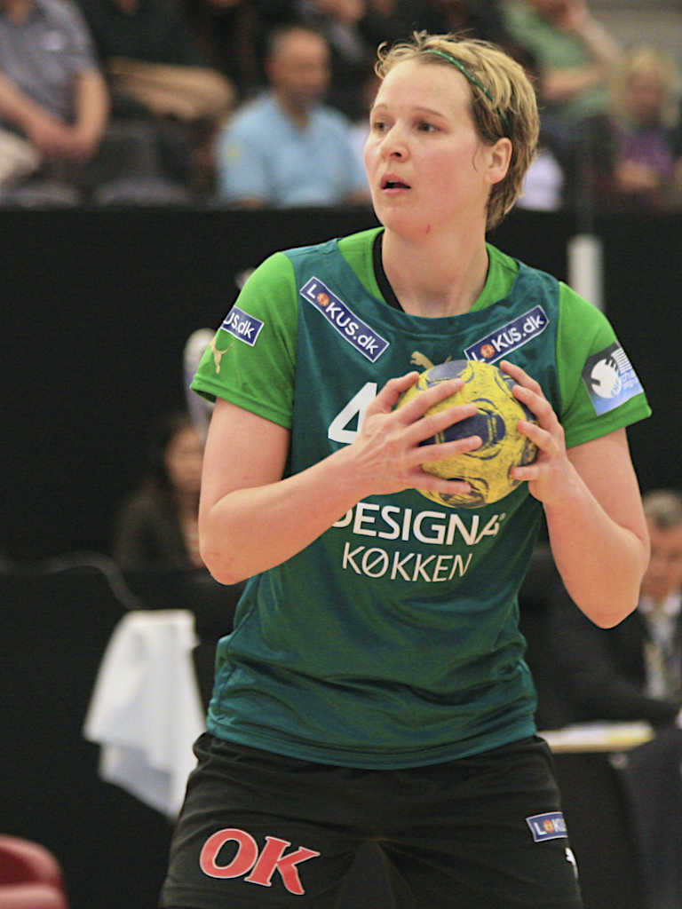 from Viborg HK.